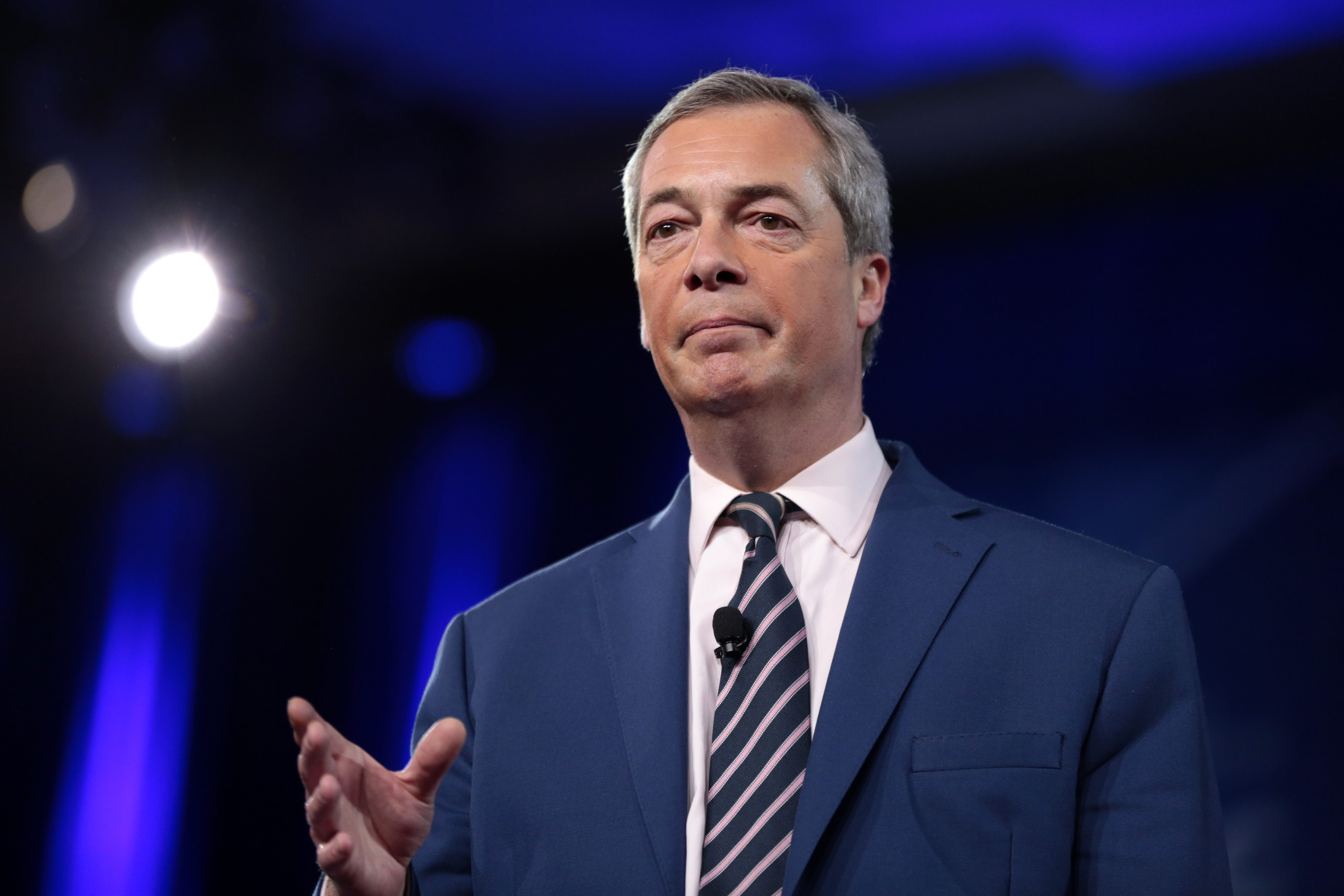 Member of the European Parliament Nigel Farage speaking at the 2017 Conservative Political Action Conference (CPAC) in National Harbor, Maryland.